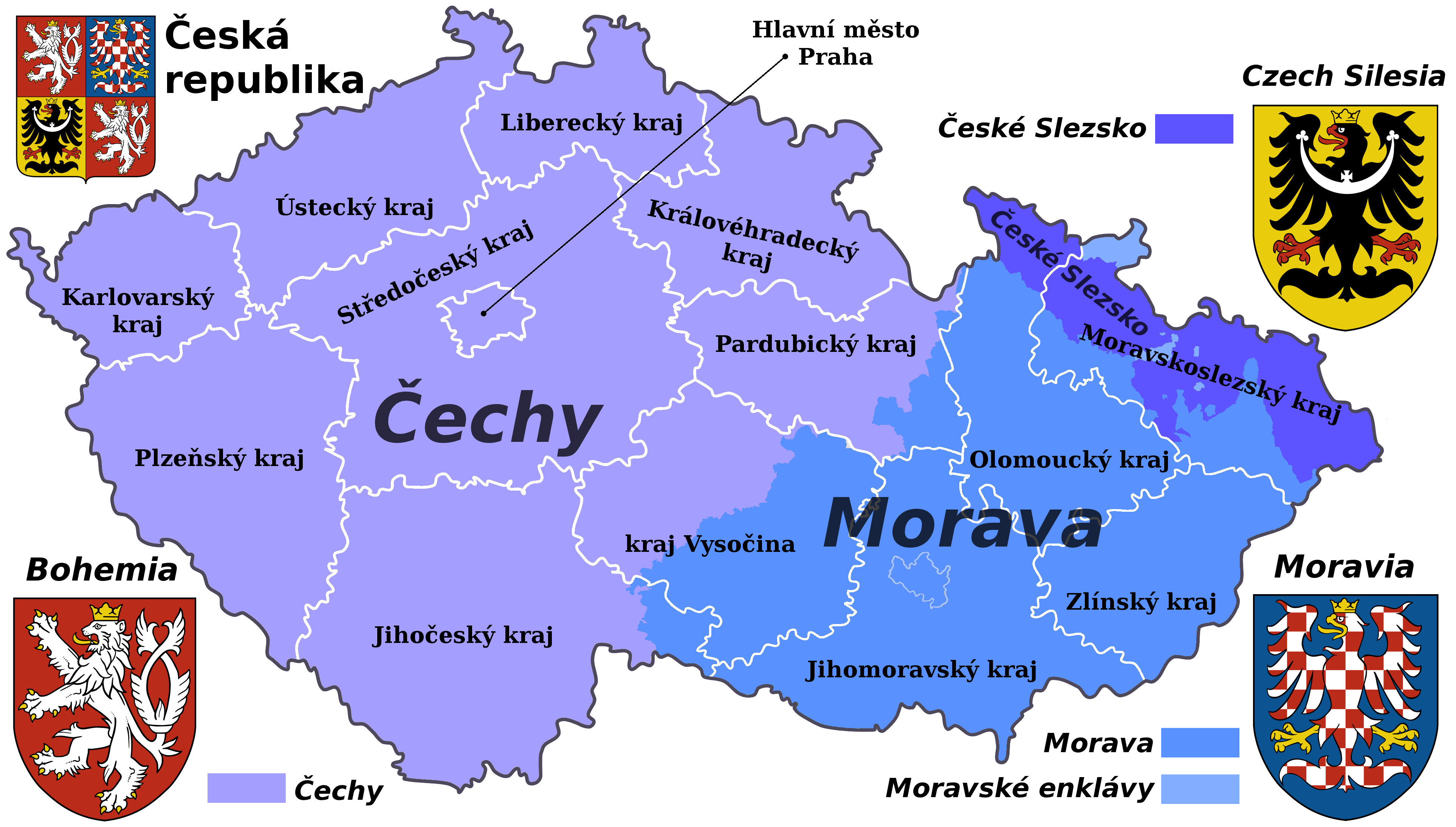 Map of the Czech republic showing the borders of its historical lands and the borders of the current administrative regions (kraje).